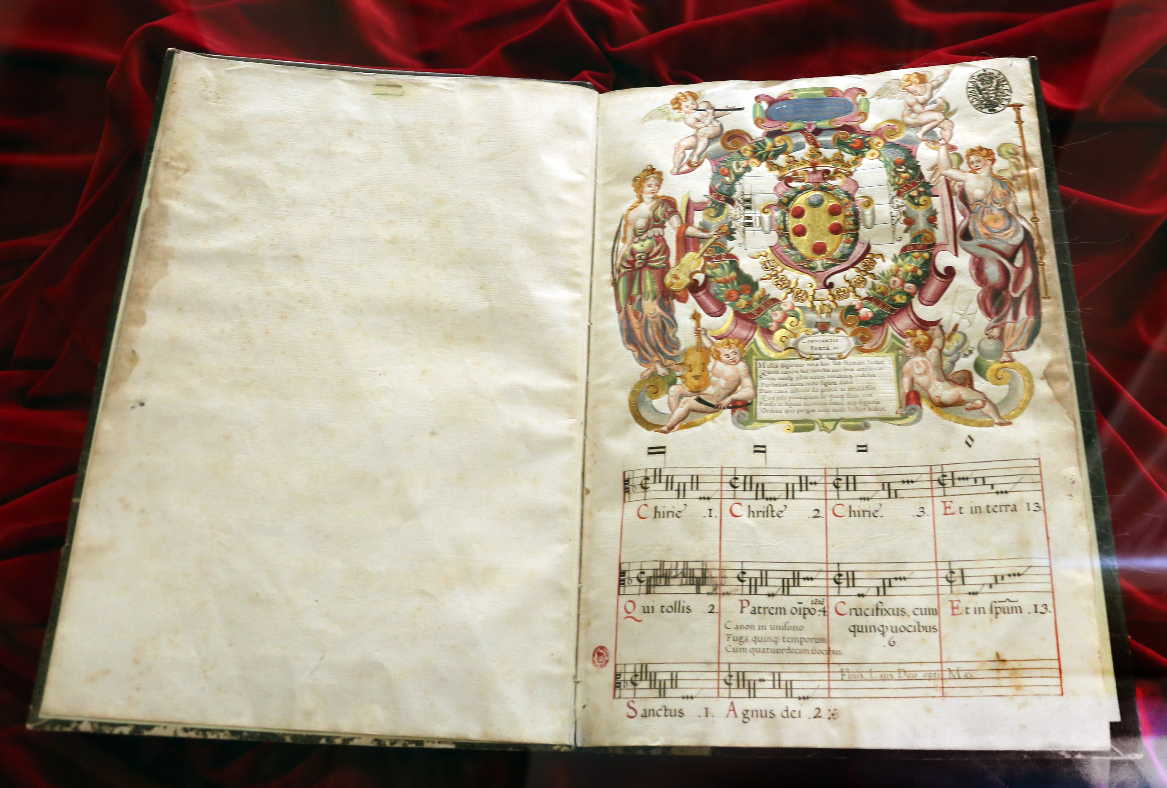 Biblioteca Medicea Laurenziana manuscripts